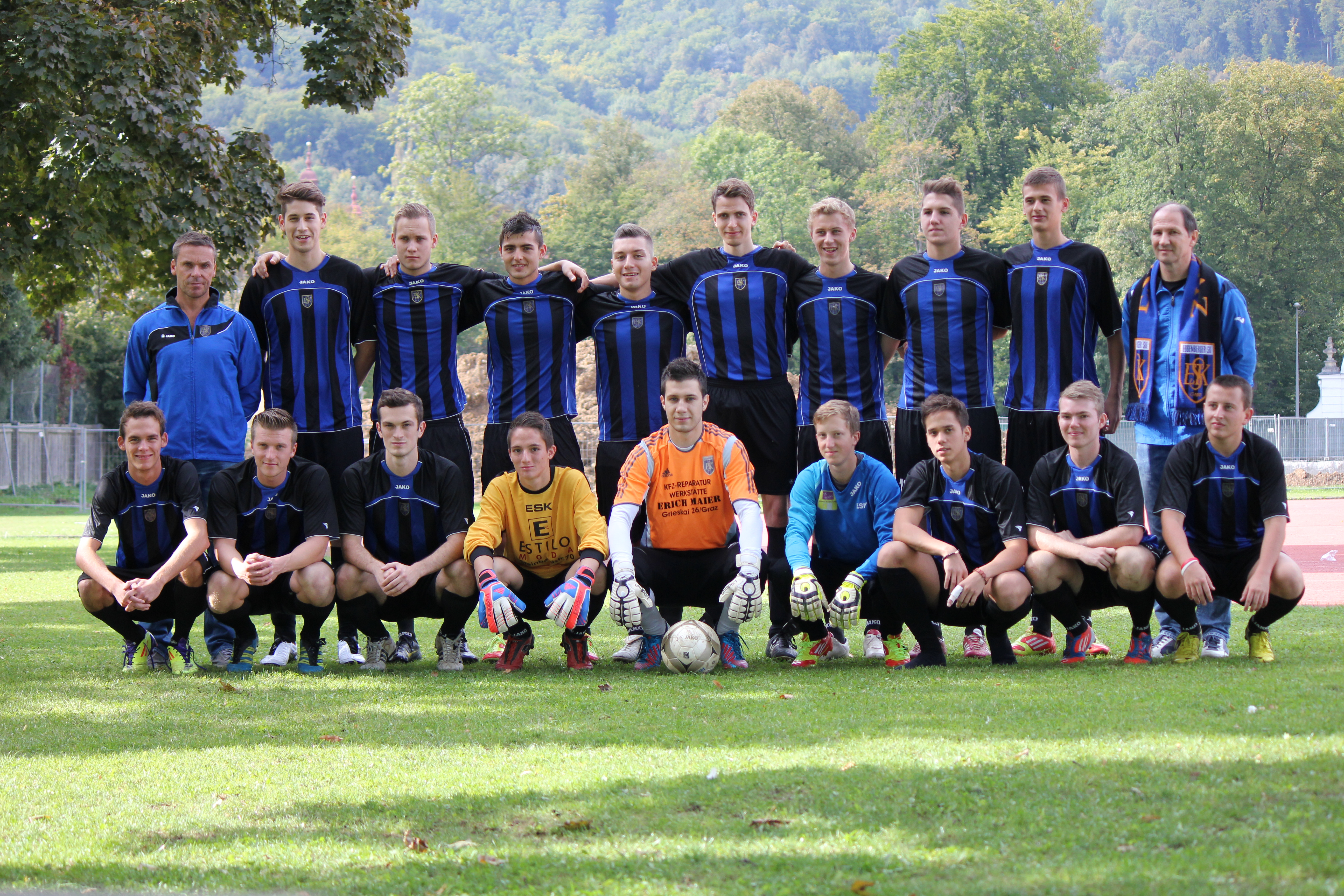 Team of ESK Graz, in the year 2012